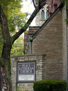 Peace Lutheran Church in MorningSide, Detroit.